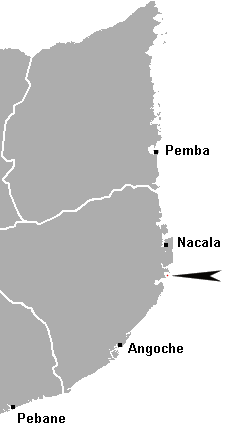 Location of the Island of Mozambique.